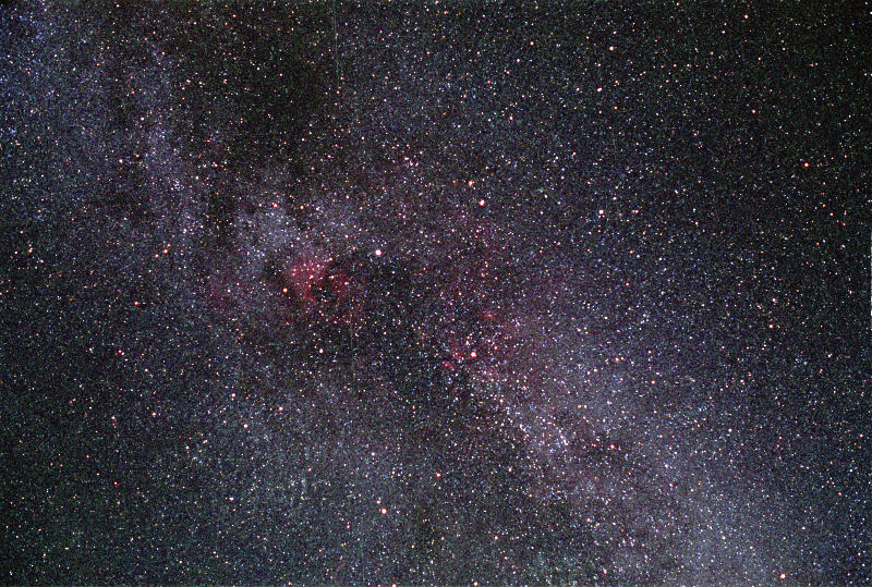 Cygnus constellation photo